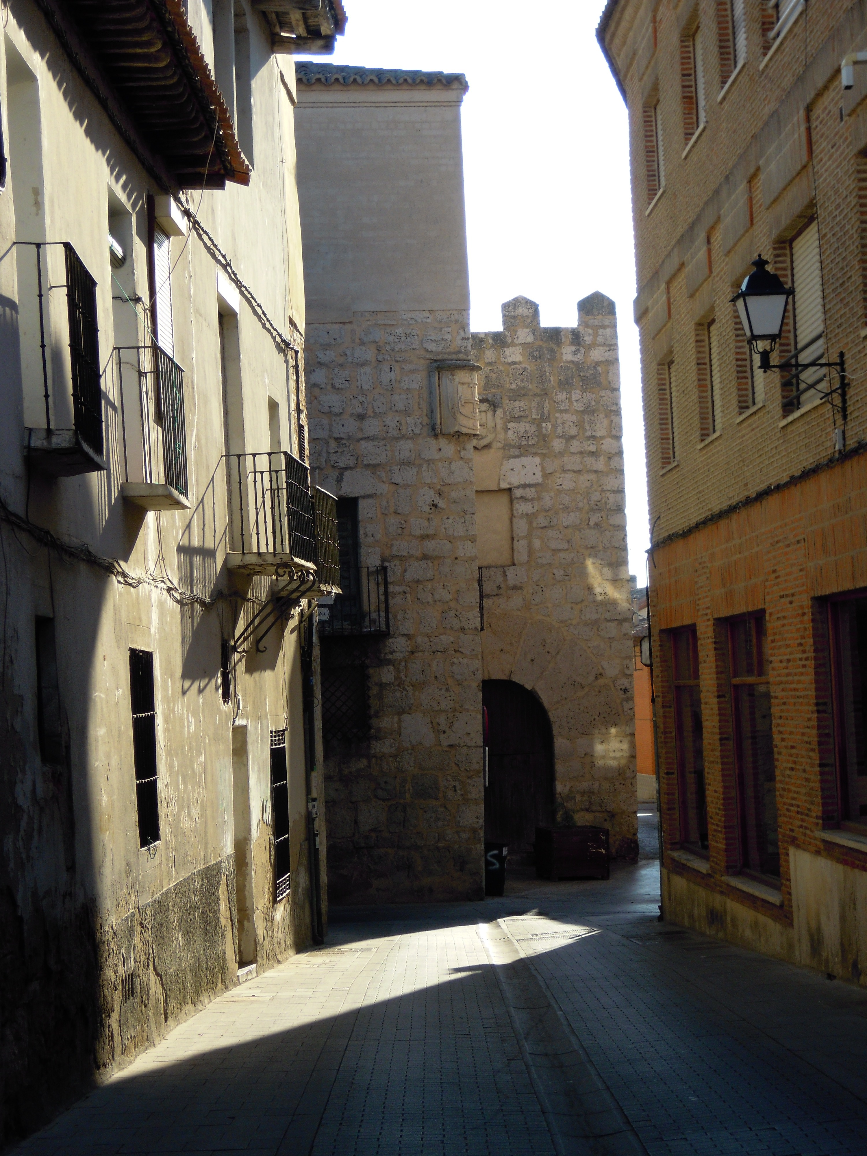 The narrow streets of Tordesillas, Castile and León, Spain.